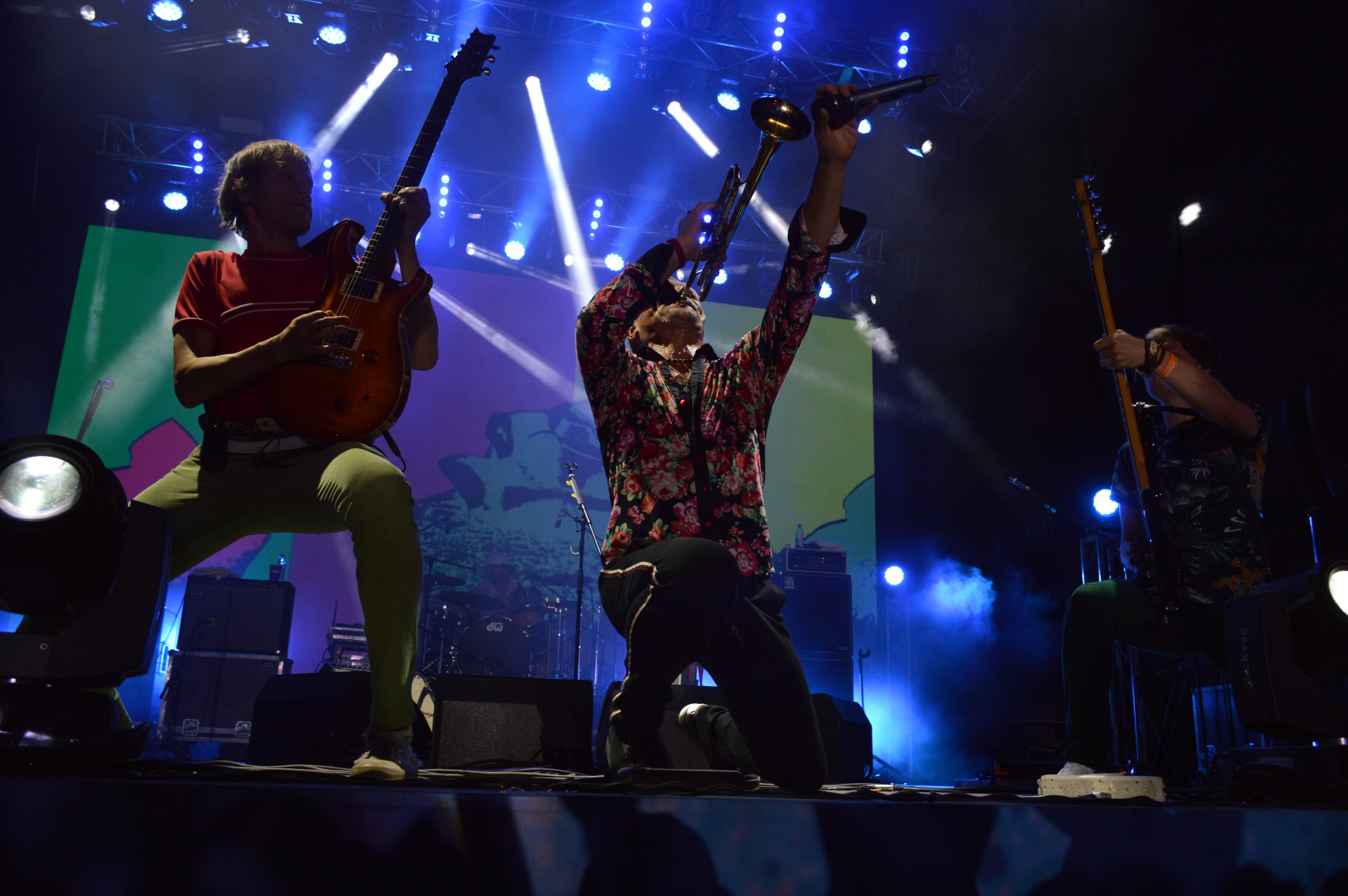 Ukrainian band "Воплі Відоплясова" at the 2018 MRPL City Festival.